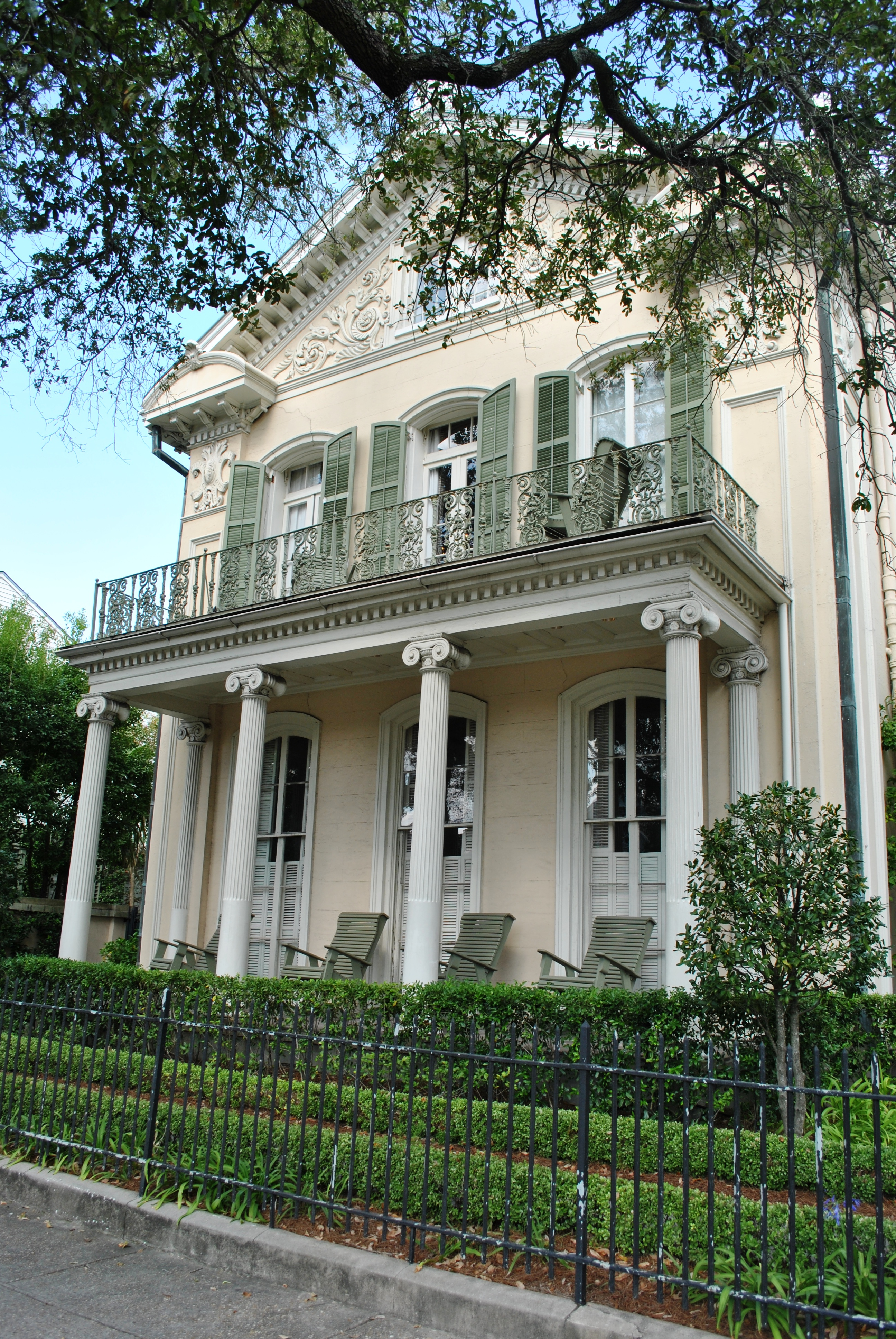 Garden District